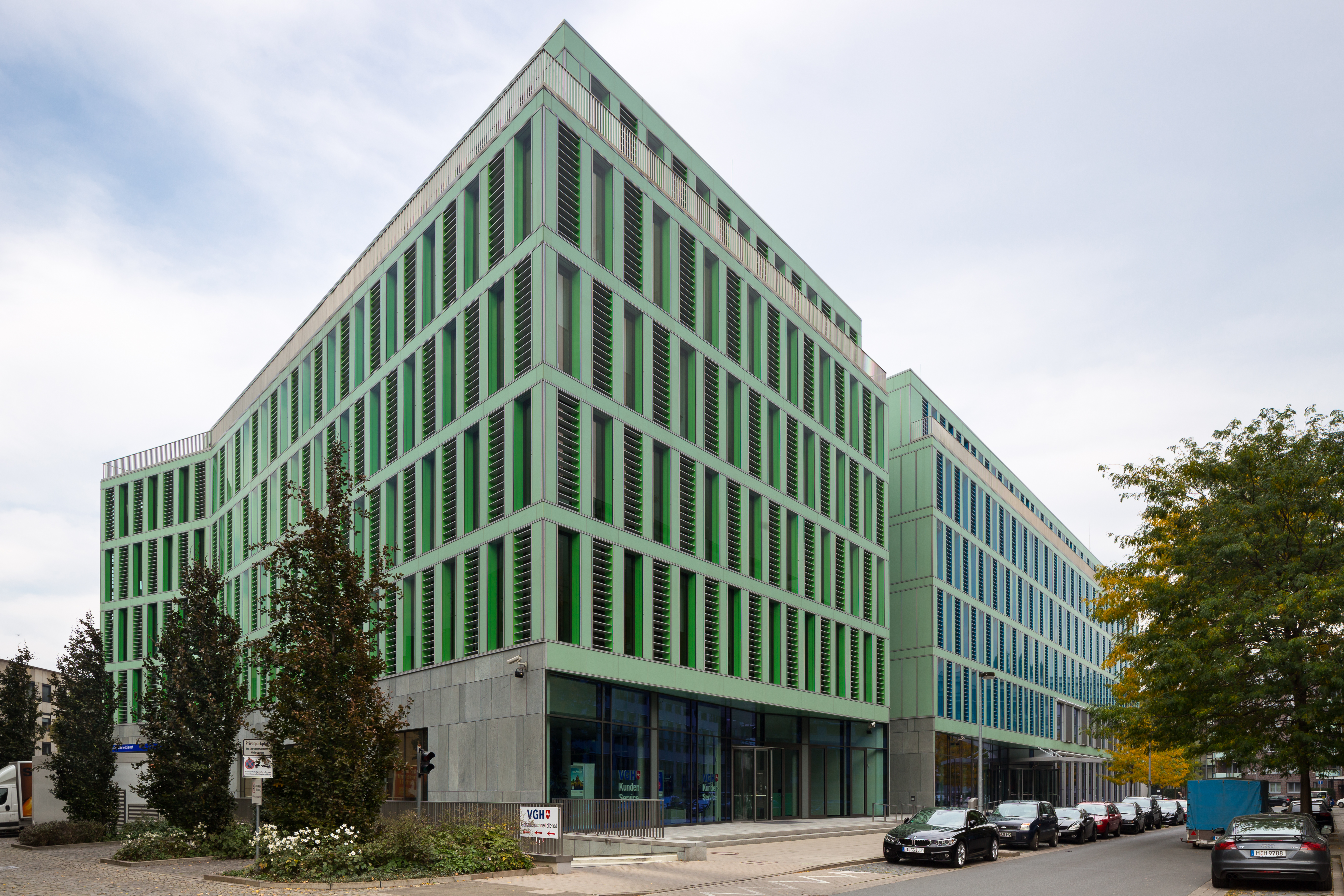 Office building of VGH insurance company located at Warmbuechenkamp in Mitte quarter of Hannover, Germany.